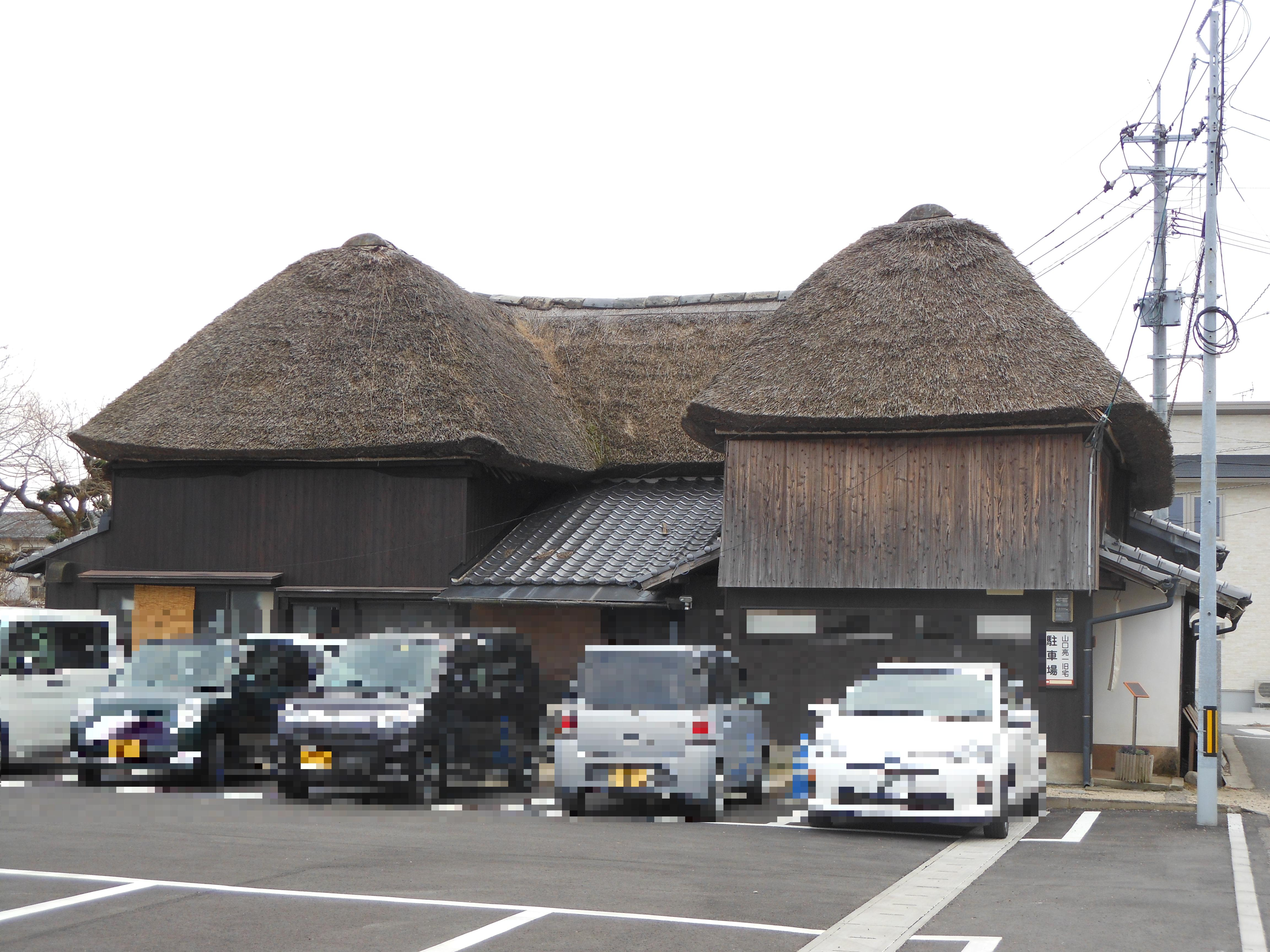 Side view of old house of Yamaguchi Ryoichi, in Yokamachi, Saga city, Saga, Japan. It is Kudozukuri(hearth-shaped) type traditional straw-thatched house.